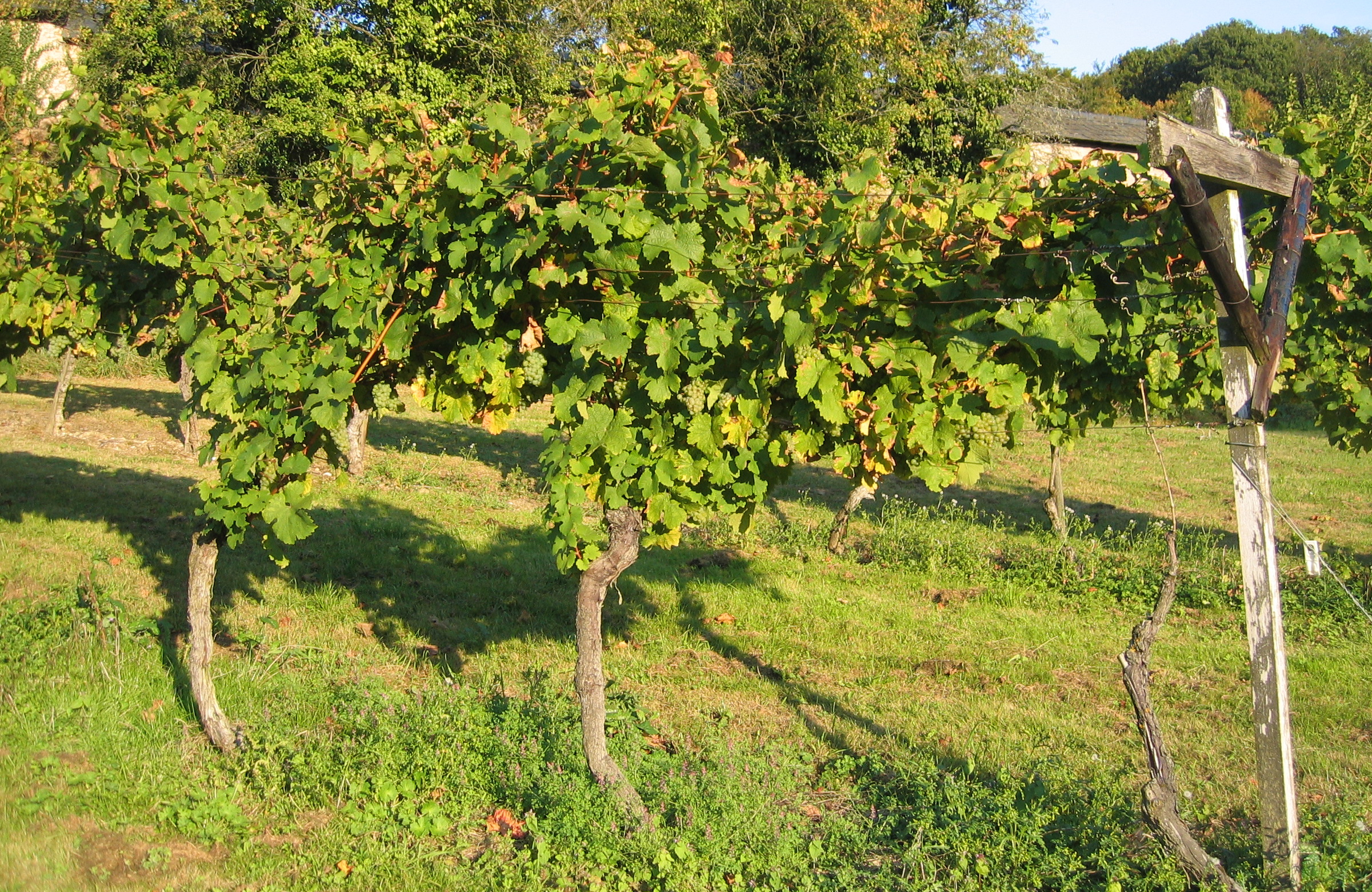 Ancient vine trellising system from the Palatinate, Pfälzer Kammertbau, kept for display purposes next to Kloster Eberbach, Rheingau, Germany